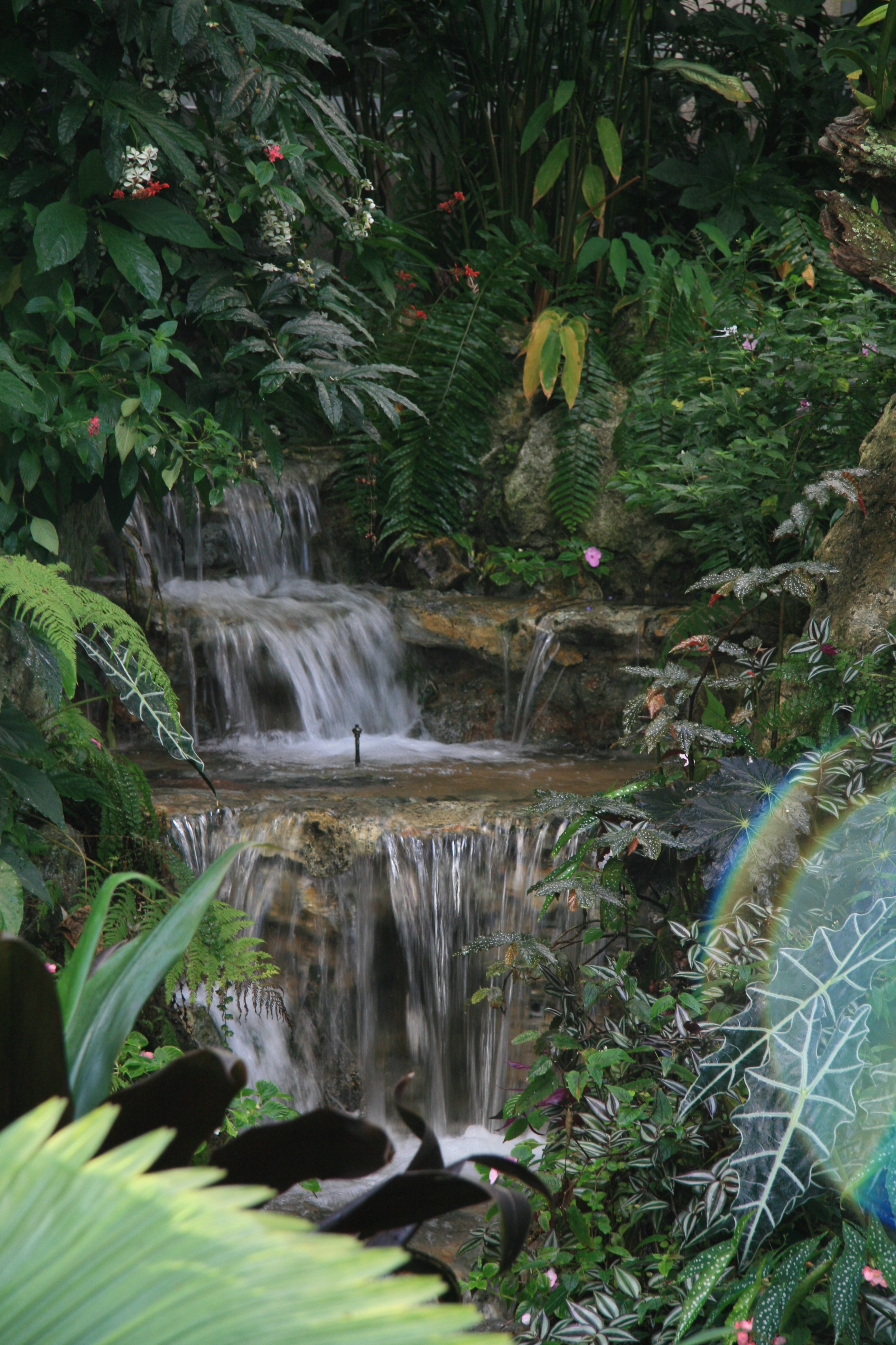 A waterfall in the Butterfly Rainforest in the Maguire Center at the Florida Museum of Natural History